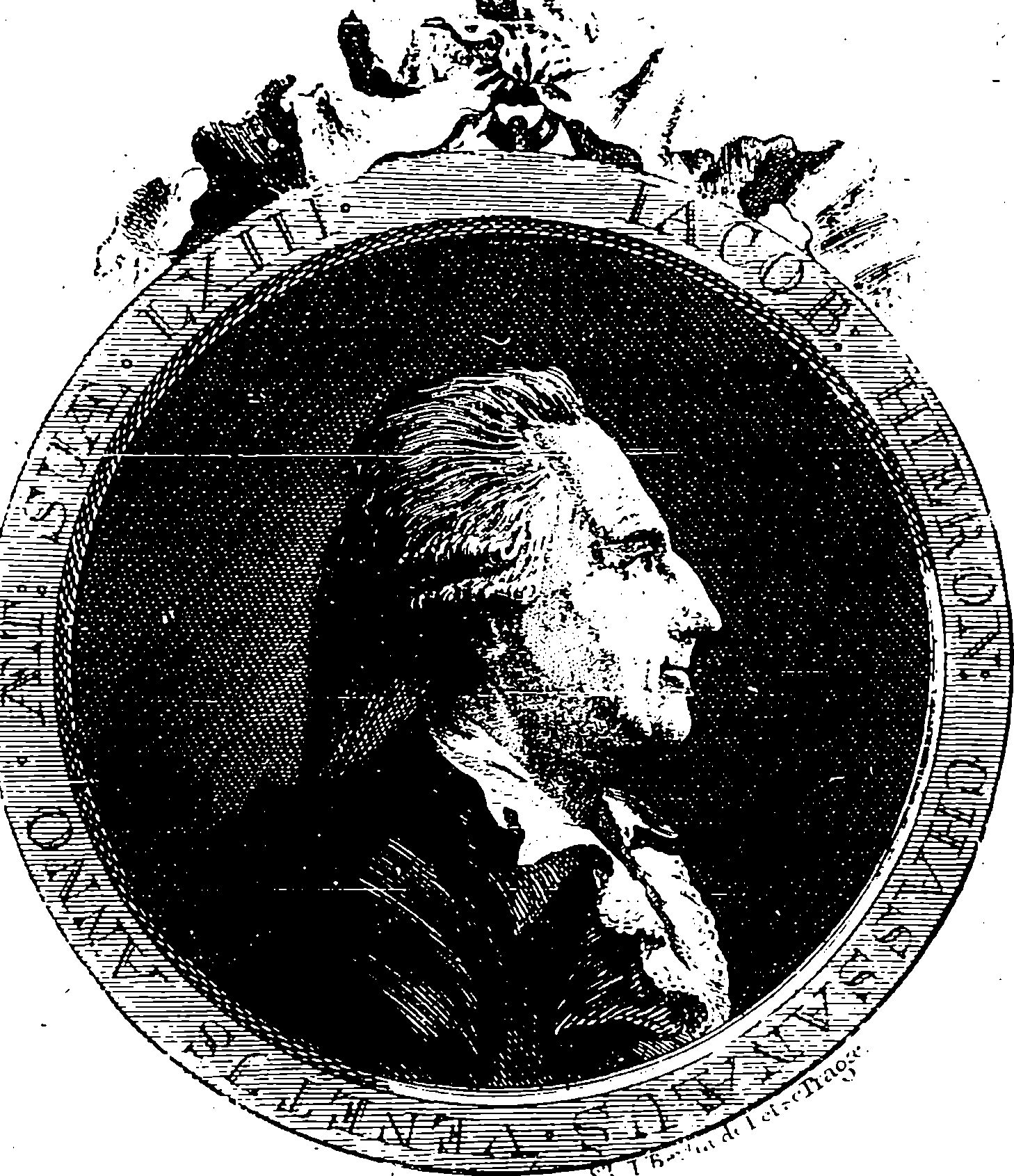 Medallion portrait of Casanova, done live in March 1788, engraving by Berka, used as frontispice for Icosameron (1788). Giacomo Girolamo Casanova, Venitian in his 63rd year.